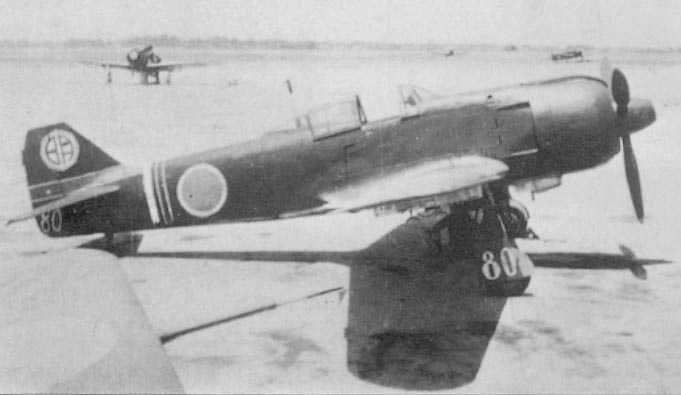 The Kawasaki Ki-100 I-Otsu (Type 5 Fighter) of the 111th squadron (Fighter Regiment). The number 80 shows the thing of the Army first lieutenant Tatsuda Mamoru.